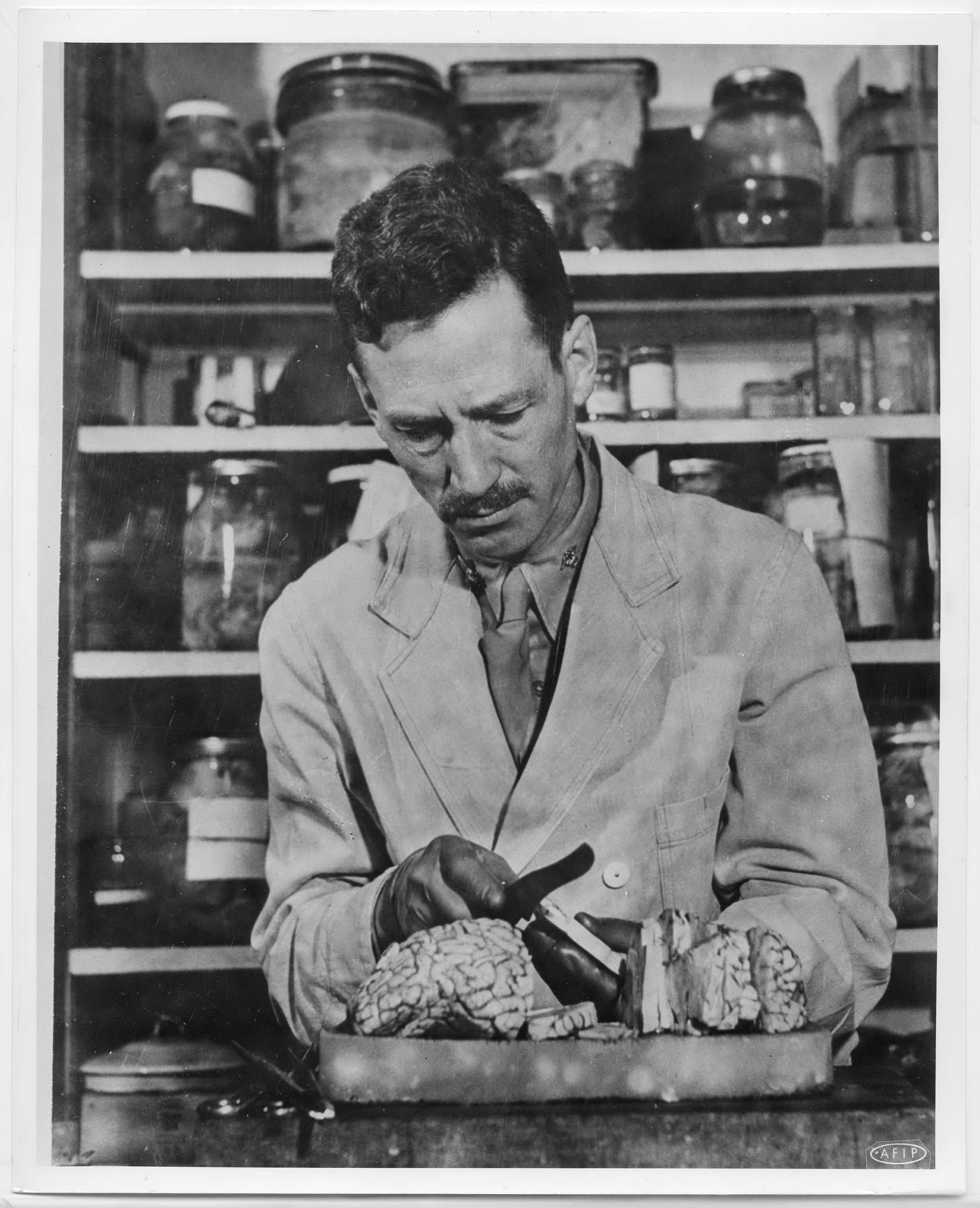 Dr. Webb Haymaker cutting into Robert Ley's brain at the Army Institute of Pathology in Washington. Published in Life magazine. Old MAMAS 518. [The museum no longer has the brain.] Life magazine credits this photograph by George Skadding as being of a doctor selecting a segment of Dr. Robert Ley's brain. Life magazine also has this description in a related photograph by George Skadding: "The half of Robert Ley's brain that was not cut up for study, showing clearly the thickening of the meninges of the frontal lobe as opposed to the normal meninges of the parietal, temporal and occipital lobes."